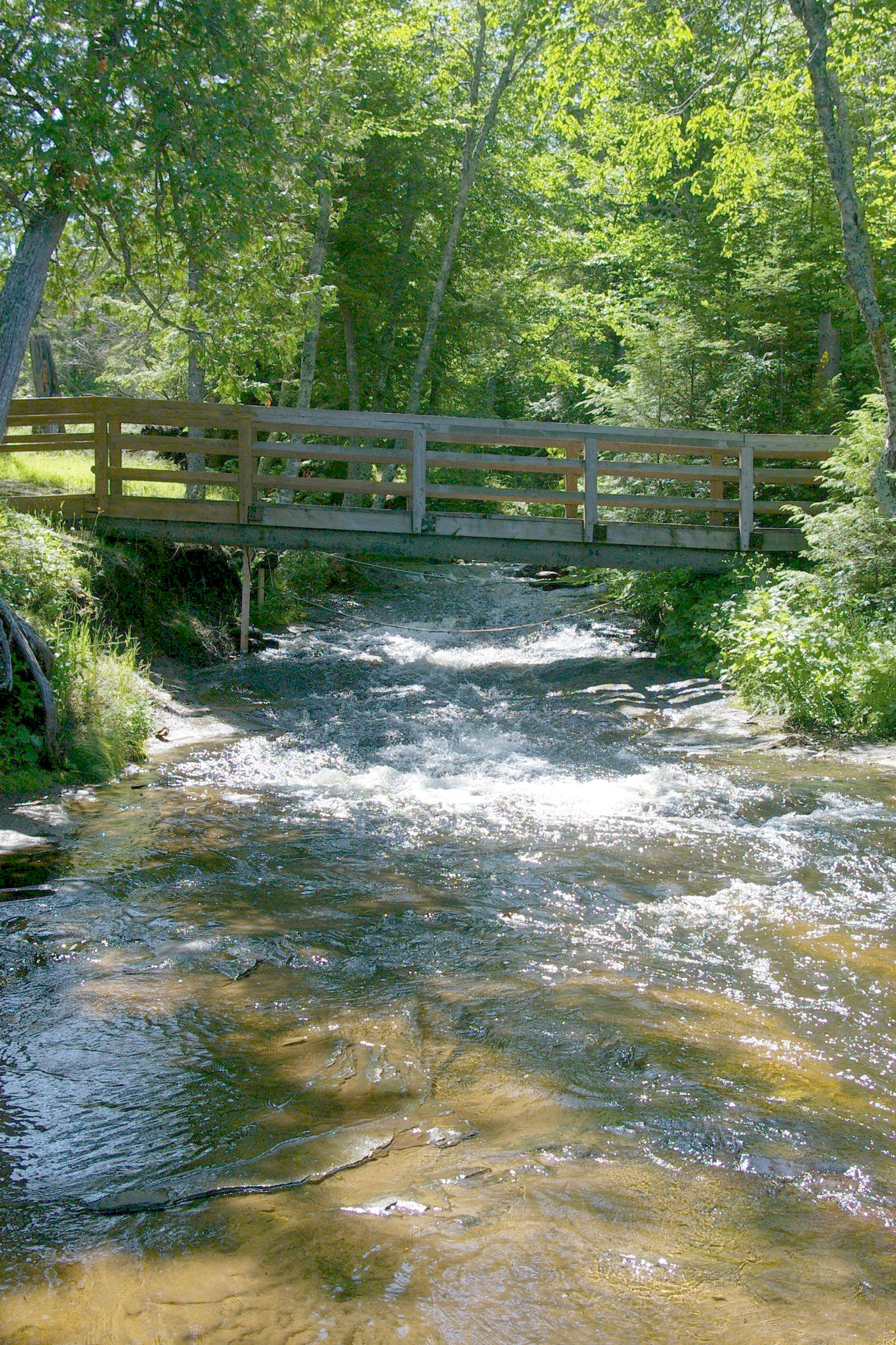 A bridge across the Hurricane River near its mouth at Lake Superior.